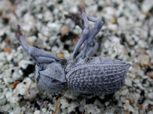 Unknown beetle (Tenebriondae) playing dead, from Baja California.